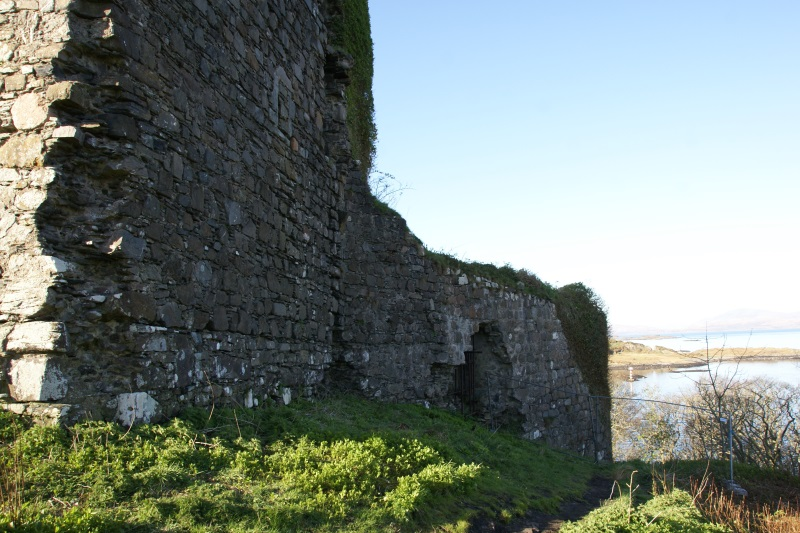 Dunollie Castle, Oban, Argyll and Bute, Scotland. North side of curtain wall and donjon.